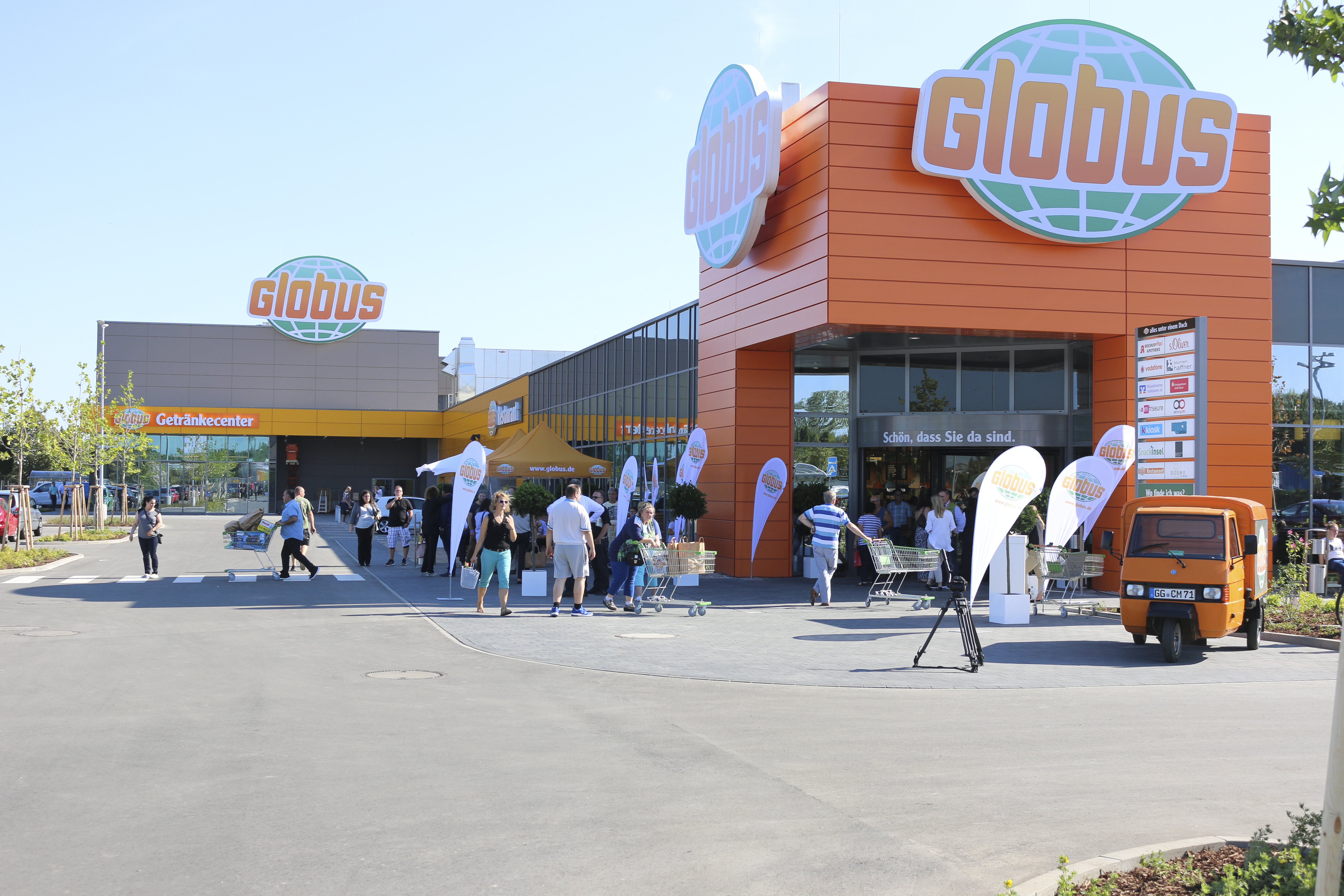 Globus SB-Warenhaus in Rüsselsheim